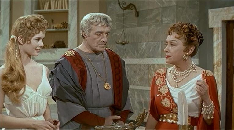 Brigitte Bardot, Vittorio De Sica, and Gloria Swanson in Nero's Weekend (1956), aka Nero's Mistress.